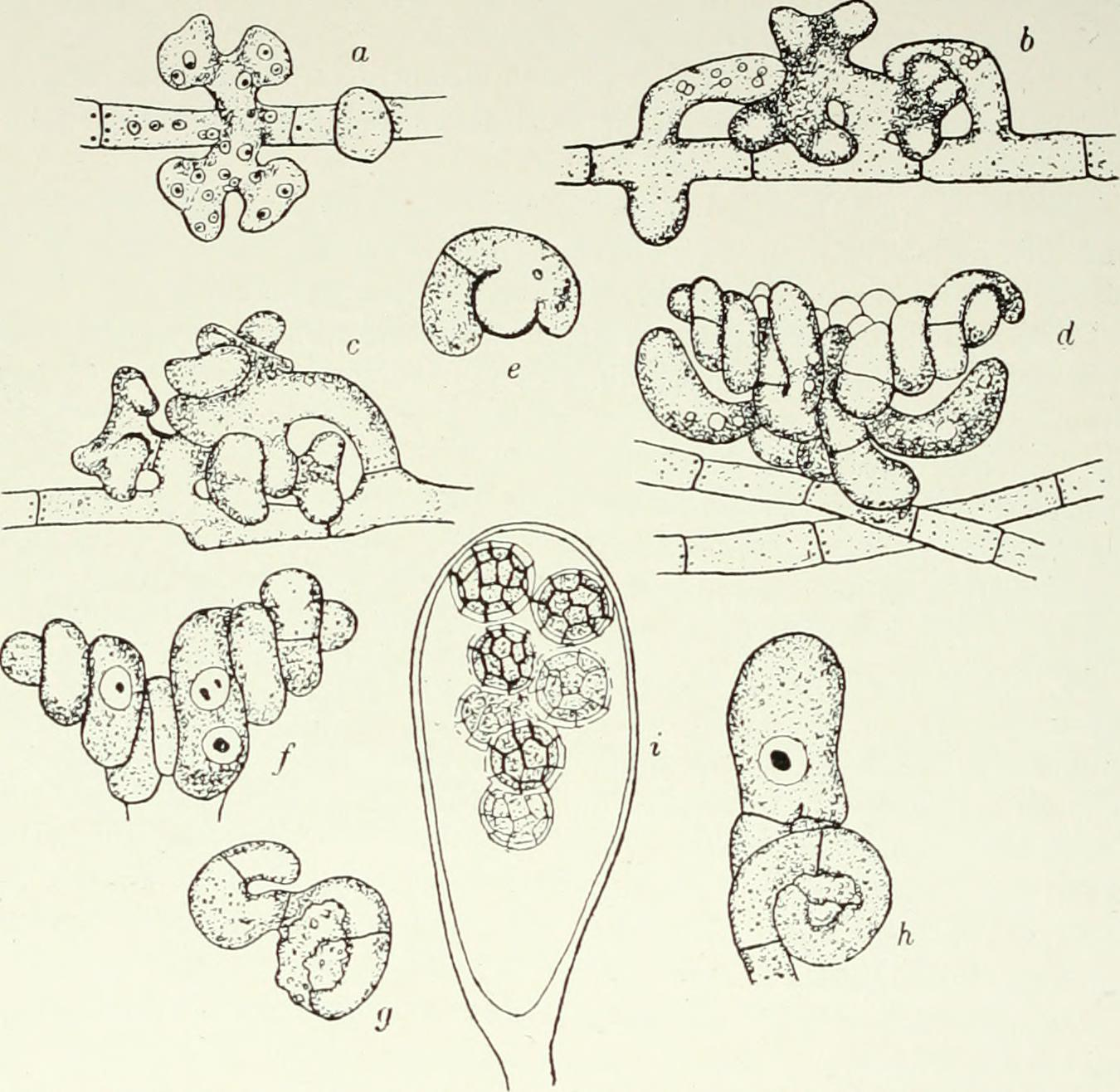 Title: Fungi, Ascomycetes, Ustilaginales, Uredinales Year: 1922 (1920s) Authors: Gwynne-Vaughan, H. C. I. (Helen Charlotte Isabella), 1879- Subjects: Fungi Fungi -- Classification Publisher: Cambridge (England) : Univeristy Press Text Appearing Before Image: Fia ;i). Ascodesmis nigricans Van Tiegh.; apo-thecium, x 540; after Claus n. 1 Claussen described the cytology I this species under ilie name of Boudiera ii n • Karst.;seeCavara, Ann. Myc. iii, 1905, p. .56,5, and Dangeard, Botaniste, \. Tyo;. p. 247, for nomenclature. 102 DISCOMYCETES (ch. about the time of fertilization vegetative filaments begin to grow up (fig. God),and at last form a loose investment around and among the developing asci(fig- 59)- Text Appearing After Image: Fig. 60. Ascodamis nigricans Van Tiegh.; a. b. c. d. development of the sexual apparatus; a. andb. x 1000, c. x 1100, d. x 800; e. communication between antheridium and trichogync, x 1300;/.fusion in oogonium, x 1600; g. septate oogonium and ascogenous hypha; antheridium andtrichogyne shrivelled, xiooo; //. uninucleate ascus, xnoo; /. sculptured spores in ascus, -750;alter Ciaussen. Pyronema confluens1 occurs on burnt ground or on charred and decayedleaves in woods. Its fruits are pink or salmon-coloured, its mycelium to agreat extent superficial, and its sexual apparatus of unusually large size.The latter fact led to an early study of its development. It was described by de Bary in 1863, by the brothers Tulasne in 1865and 1866, by van Tieghem in 1884, and by Kihlman in 1885, and a veryclear understanding of the morphology of the sexual organs was reached.A swollen,elongated antheridium was recognized and a more or less globular 1 Pyronema confluent. Tul. = P. omphaloides (Bull.) Fuck